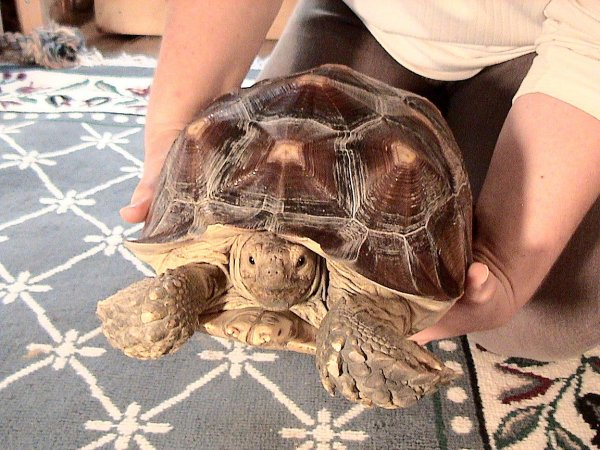 Geochelone sulcata. Animal courtesy of Austin Reptile Service.